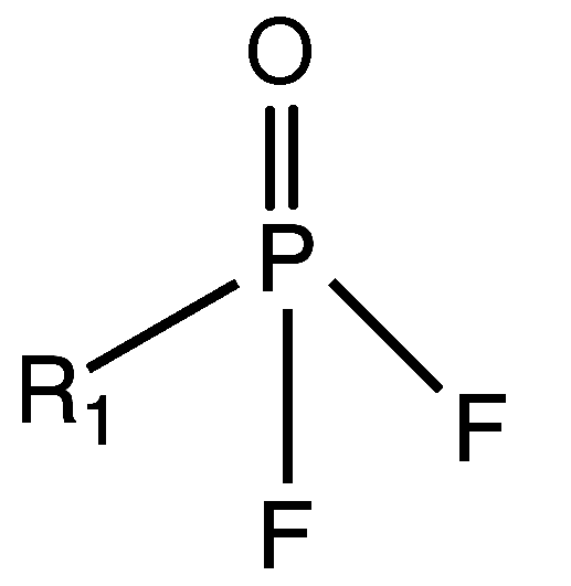 Alkyl (Me, Et, n-Pr or i-Pr) phosphonyldifluorides, schedule 1 within the chemical weapons convention